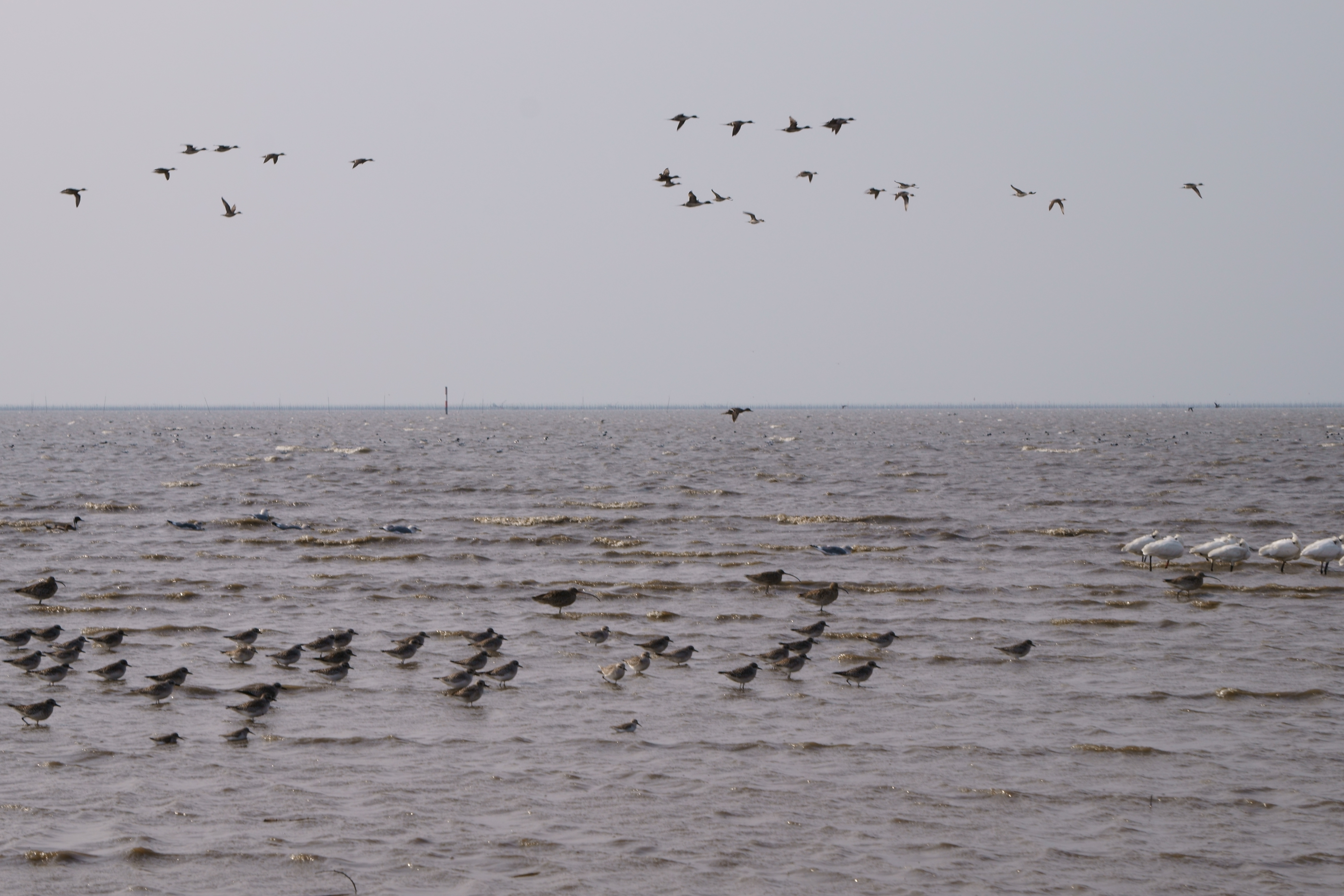 Flocks of waterfowls on the shoal over mudflat, at high tide, in Higashiyoka-higata(tidal flat), Saga city. Eurasian Curlew(Numenius arquata) in the back Dunlin(Calidris alpina) in the flont Herring Gull(Larus argentatus) on the left Black-faced Spoonbill(Platalea minor) on the right Common Shelduck(Tadorna tadorna) in the sky